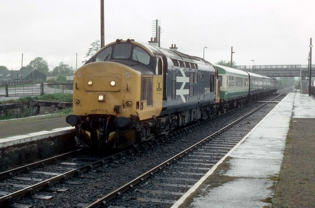 37 Muir of Ord railway station in the rain